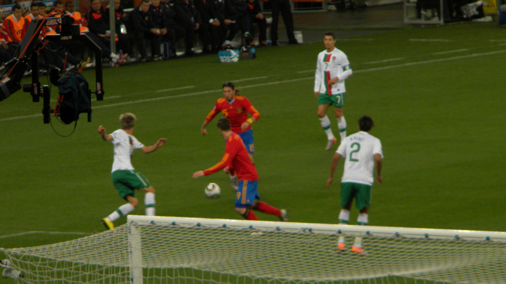 Spain tested Portugal's defence, eventually scoring a goal to win 1 - 0.